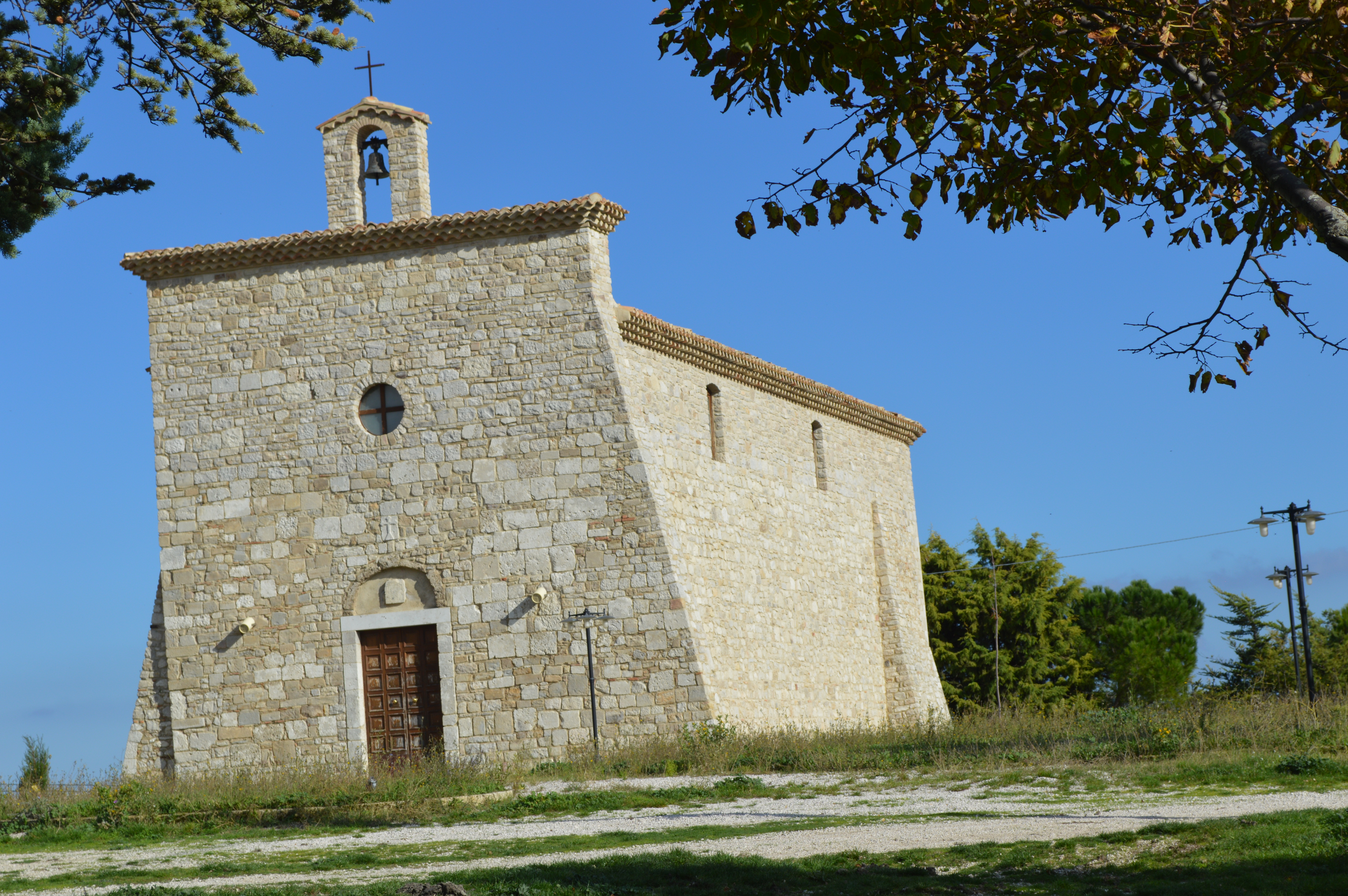 Little church of S Elena in San Giuliano di Puglia,Molise,Italy